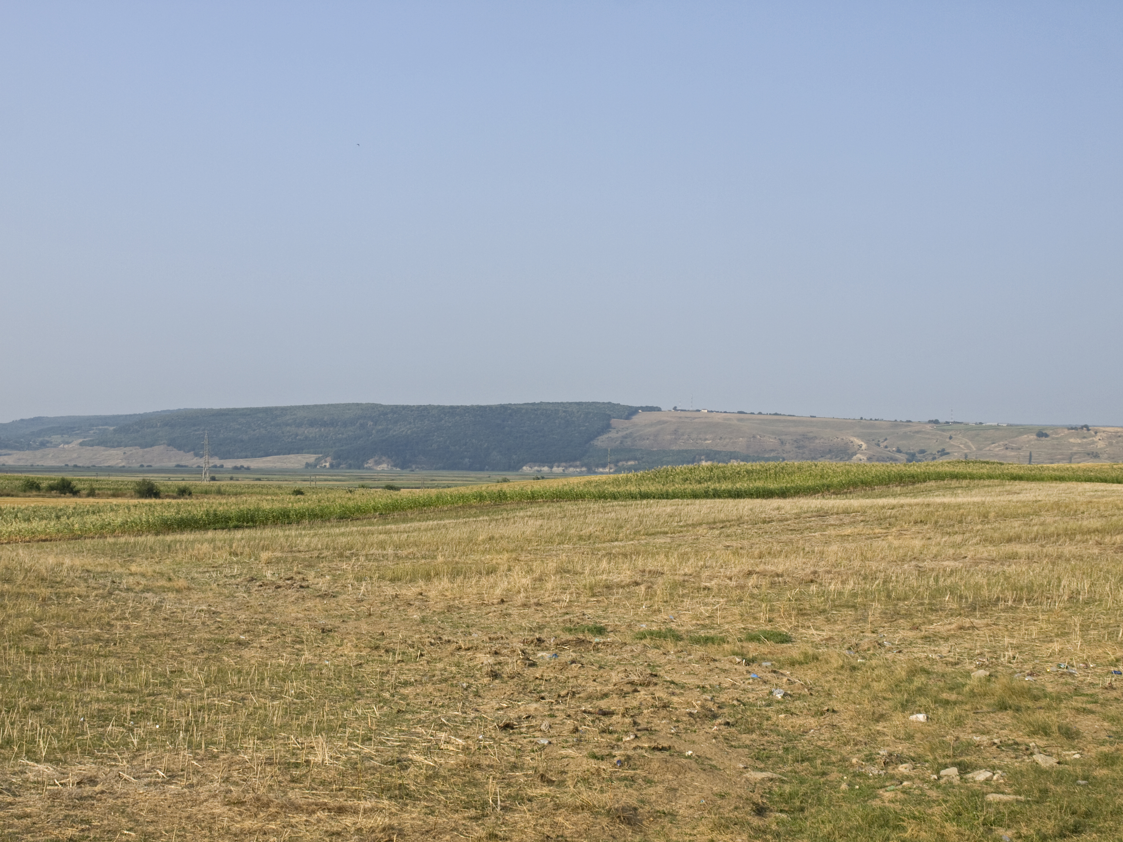 Comuna Valea Seacă east from E85. The background is the eastern side of Lacul Beresti.